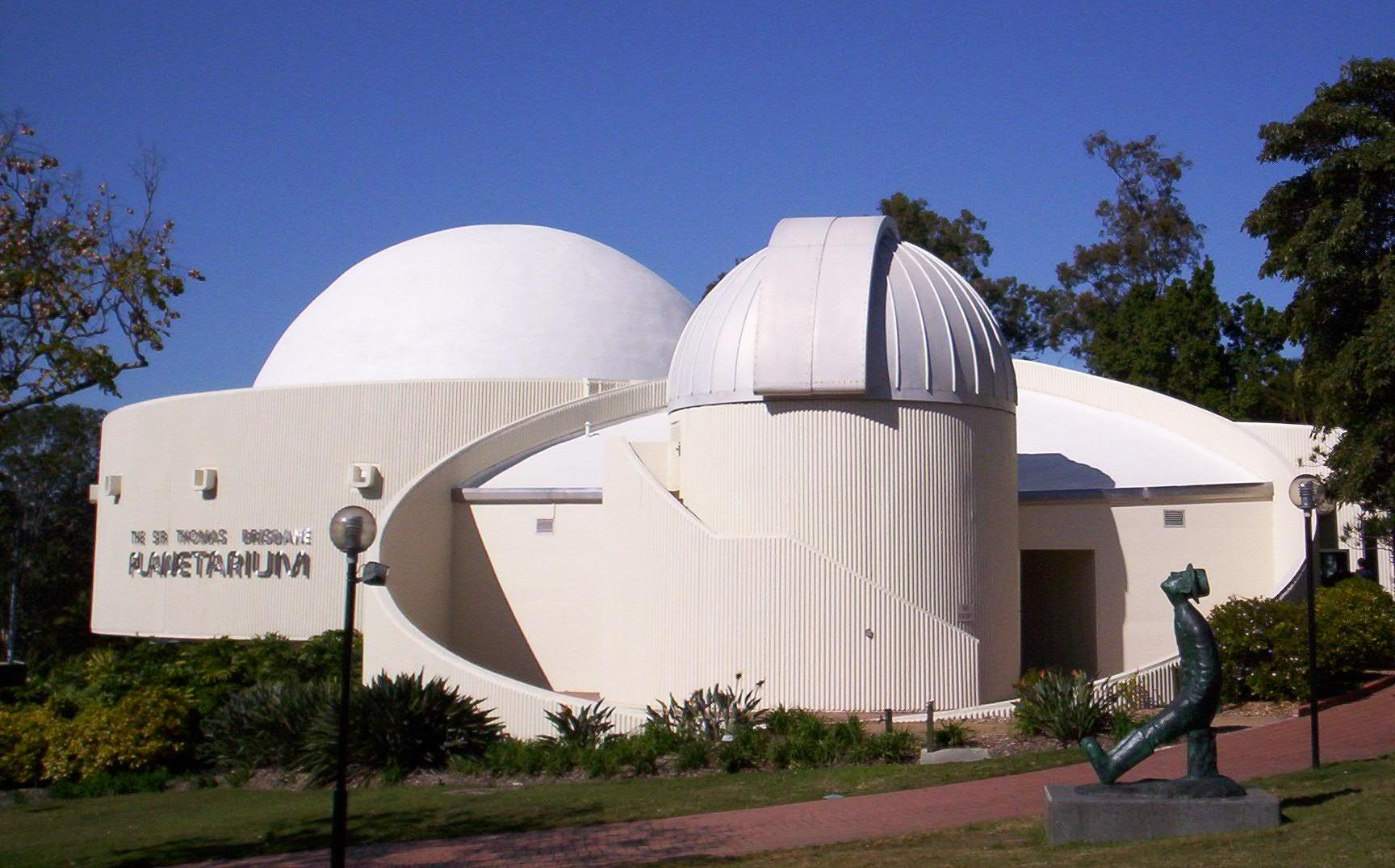 Sir Thomas Brisbane Planetarium, and statue of Russian rocketry pioneer Konstantin Tsiolkovsky, at Brisbane Botanic Gardens, Mount Coot-tha in Brisbane, Queensland, Australia